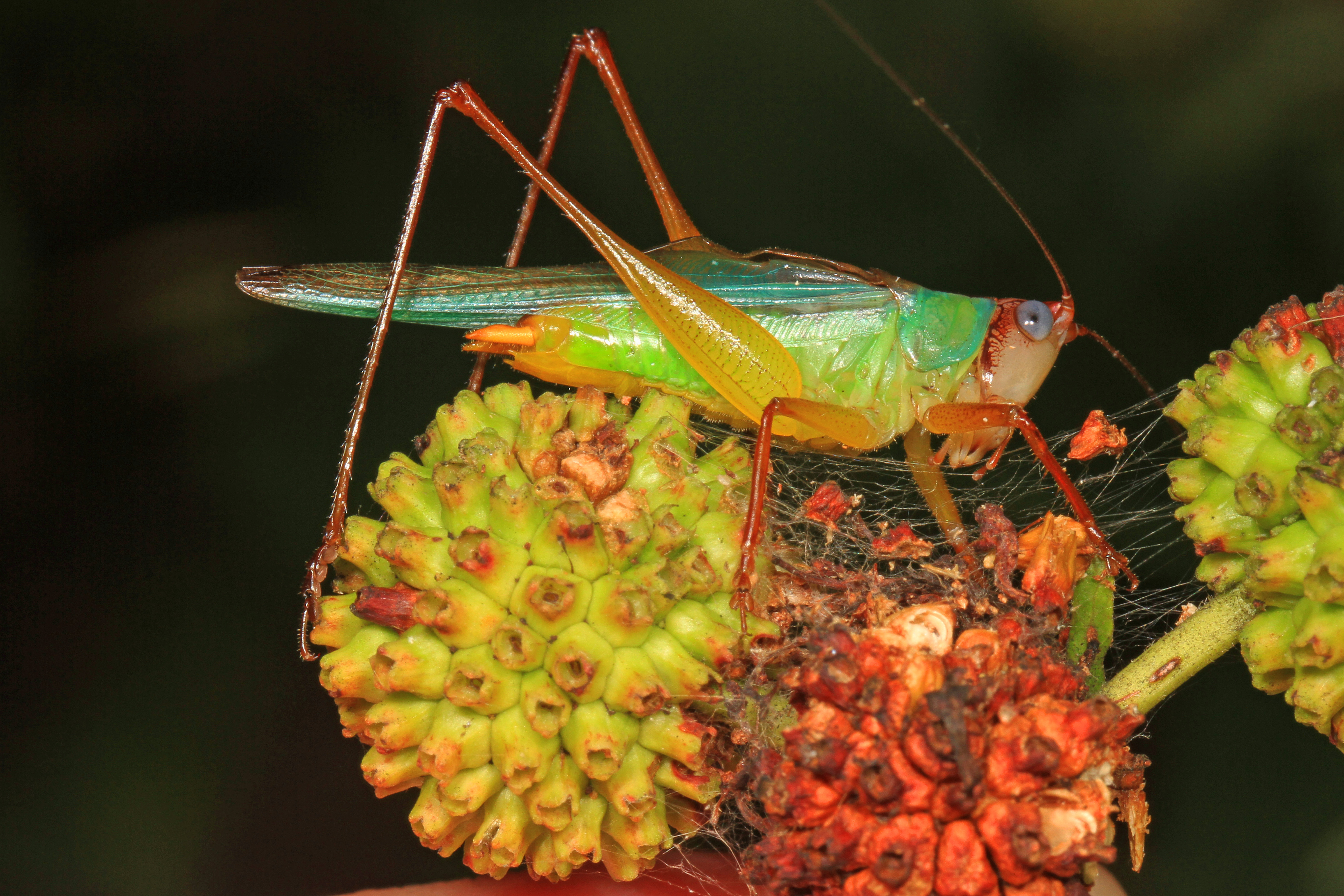 Handsome Meadow Katydid - Orchelimum pulche6llum, Leesylvania State Park, Woodbridge, Virginia.